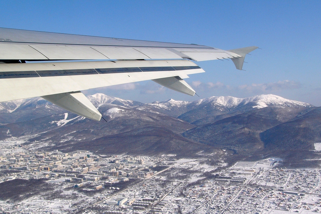 Over Yuzhno-Sakhalinsk.